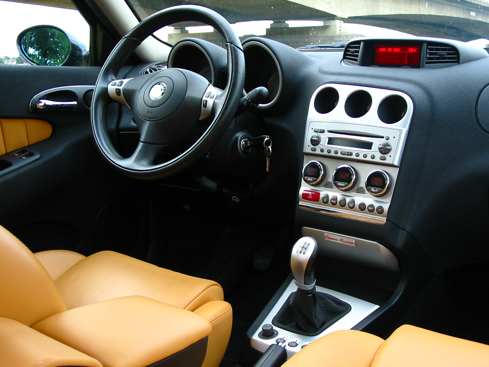 Interior of the Alfa Romeo 156 second series.